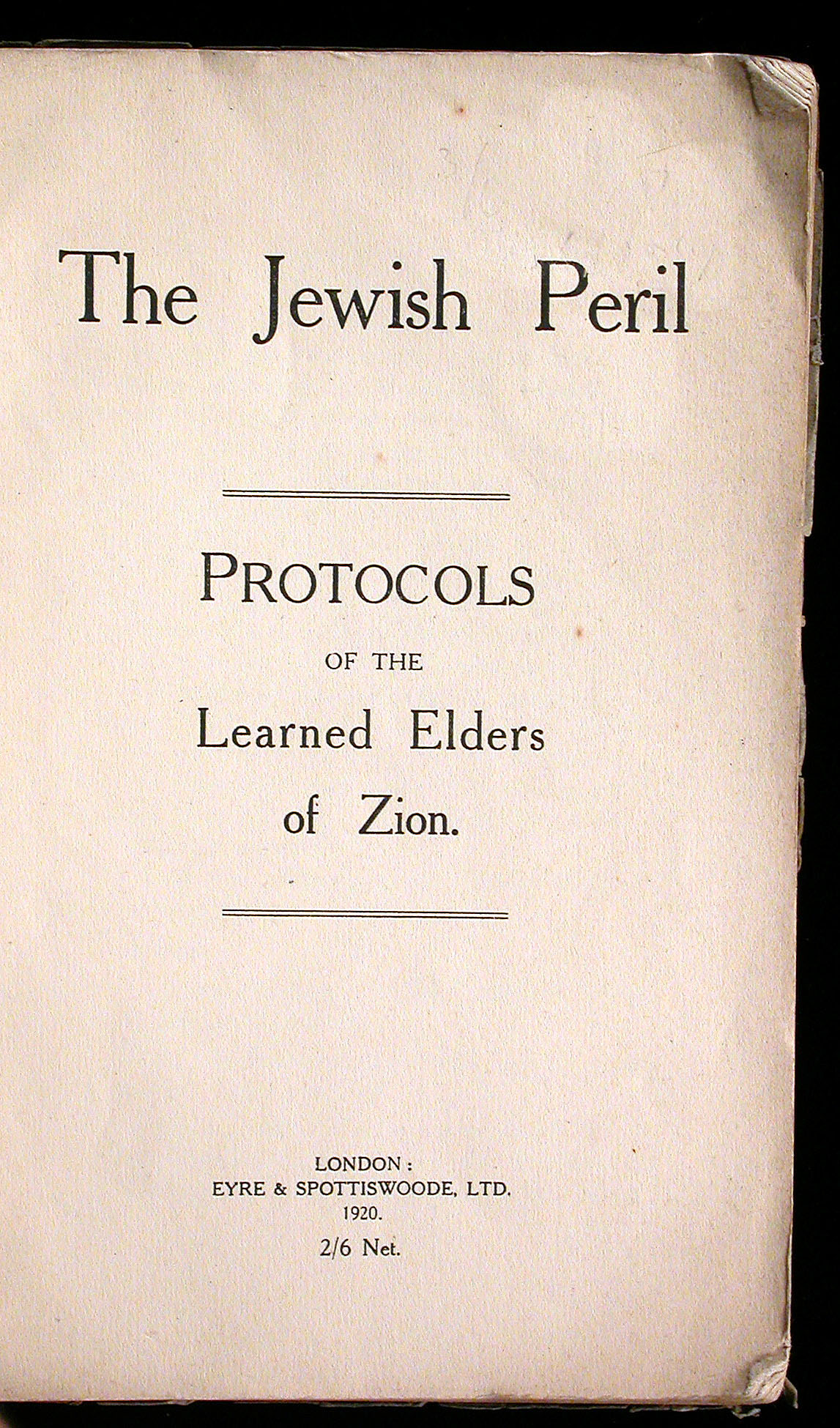 This is the title page of the 1920 British publication of the anonymous edition of the Protocols of the Elders of Zion